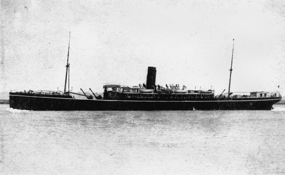 Kashmir (ship)